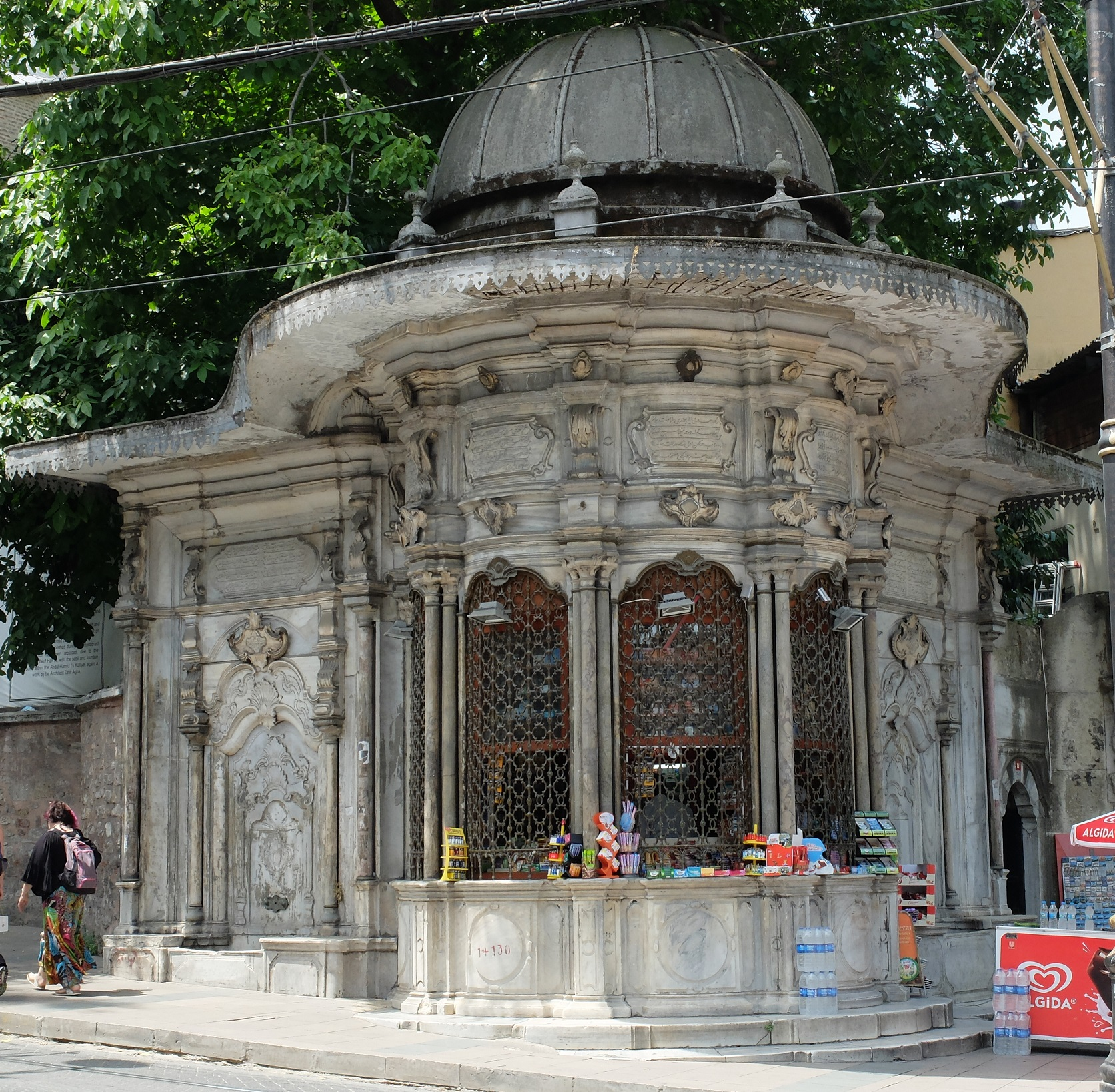 Sebil of Sultan Abdulhamit I (1778 CE)